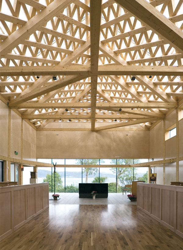 The Tautra Abbey in Tautra, Trøndelag designed by architectural firm Jensen & Skodvin. Materials were used from Moelven Industrier in both load-bearing structures and surfaces. Triangles help to give the abbey character and warmth, while open construction links nature outside with life inside the monastery.